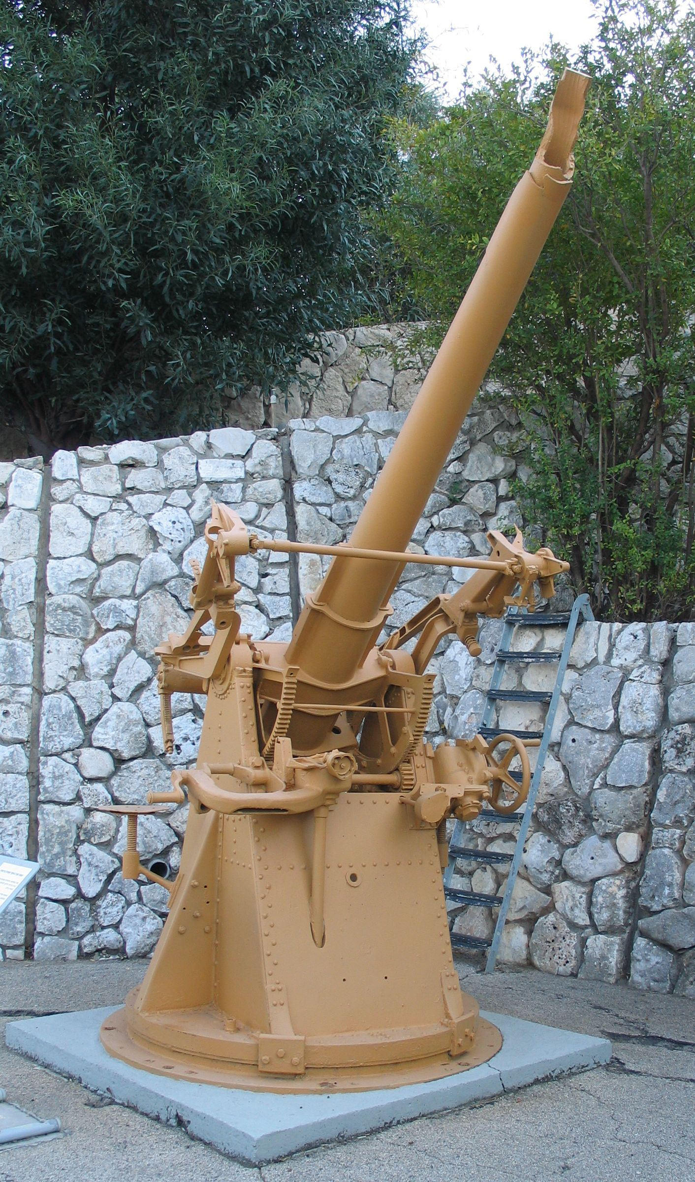 British 3-inch coastal gun in the Clandestine Immigration and Naval Museum, Haifa, Israel. The gun was captured from Egypt at Ras Natzrani in 1956. Comment : This is a 3 inch 20 cwt anti-aircraft gun of World War I vintage. Very rare. The damage to the barrel reveals its structure.